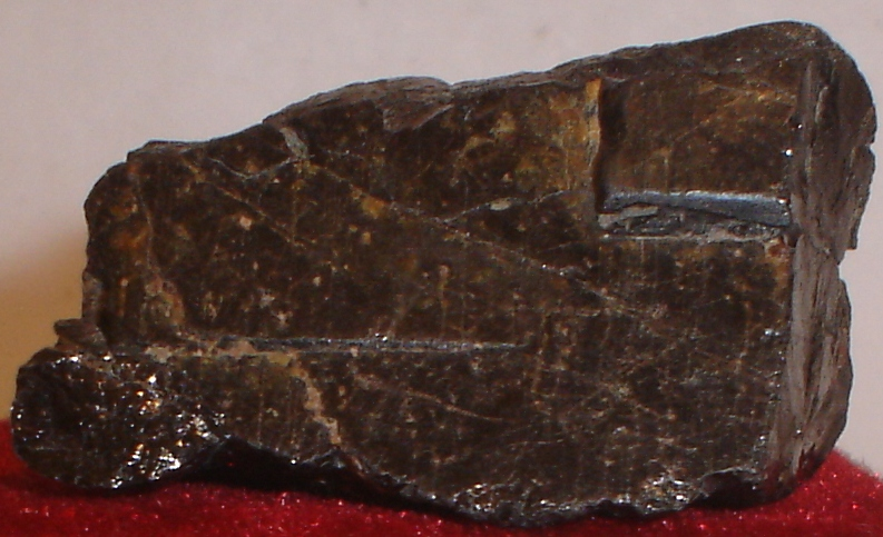 Brannerite (Size: 3.5 x 2.5 x 1.8 cm) Locality: Uranium deposit, Oberpfälzer Wald, Upper Palatinate, Bavaria, Germany Original description: Brannerite: (U,Ca,Ce) (Ti,Fe)2 O6; Tabular twinned crystals.